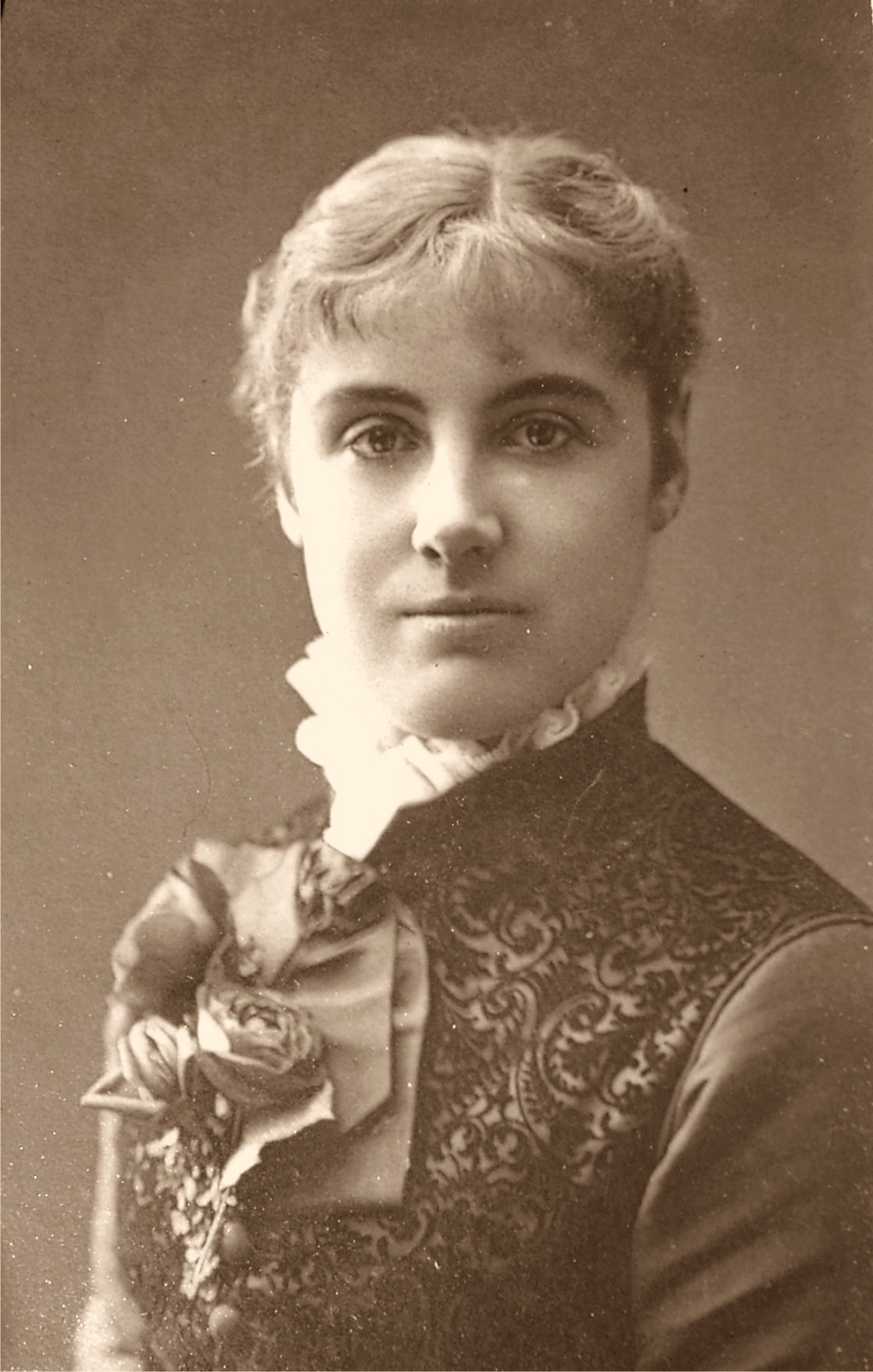 Lilian Adelaide Neilson 1848-1880, English Actress.